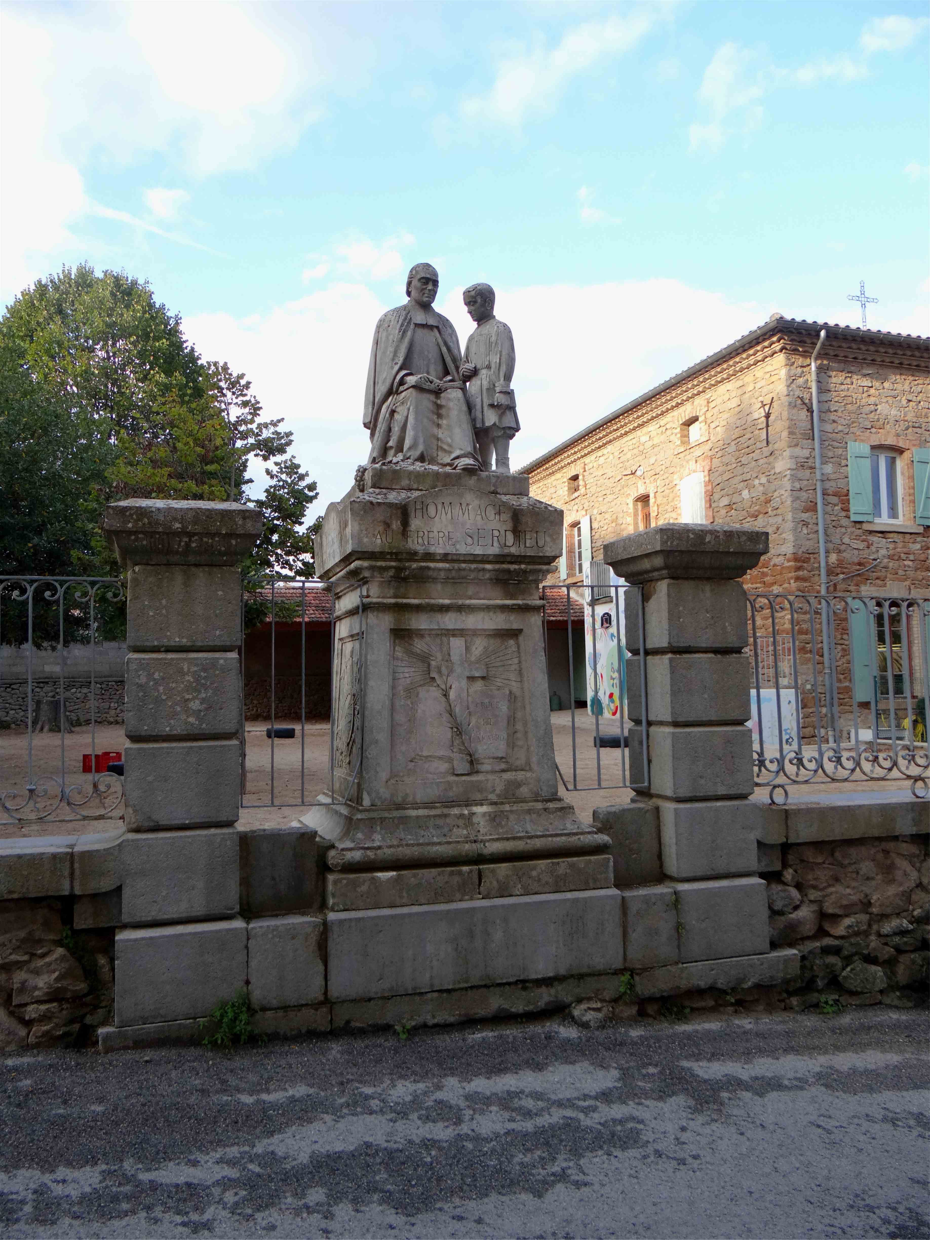 Statue of Brother Serdieu, Laurac-en-Vivarais, Ardèche, France.